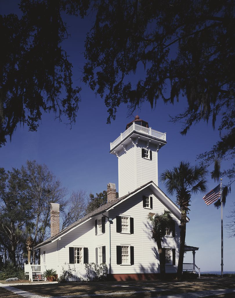 Haig Point Lighthouse, Daufuskie, South Carolina